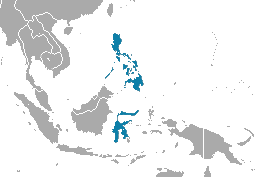 Peters’s Fruit Bat (Cynopterus luzoniensis) range